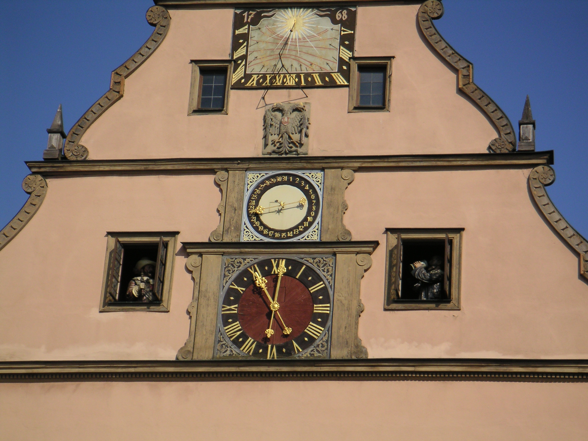 Rotenburg ob der Tauber clocktower